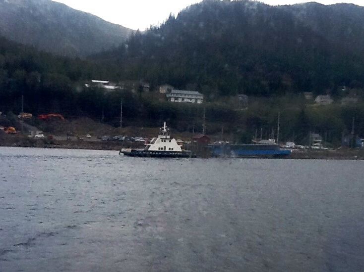 Gravina Island Ferry, made famous by the "Bridge to Nowhere" scandal, Ketchikan, Alaska